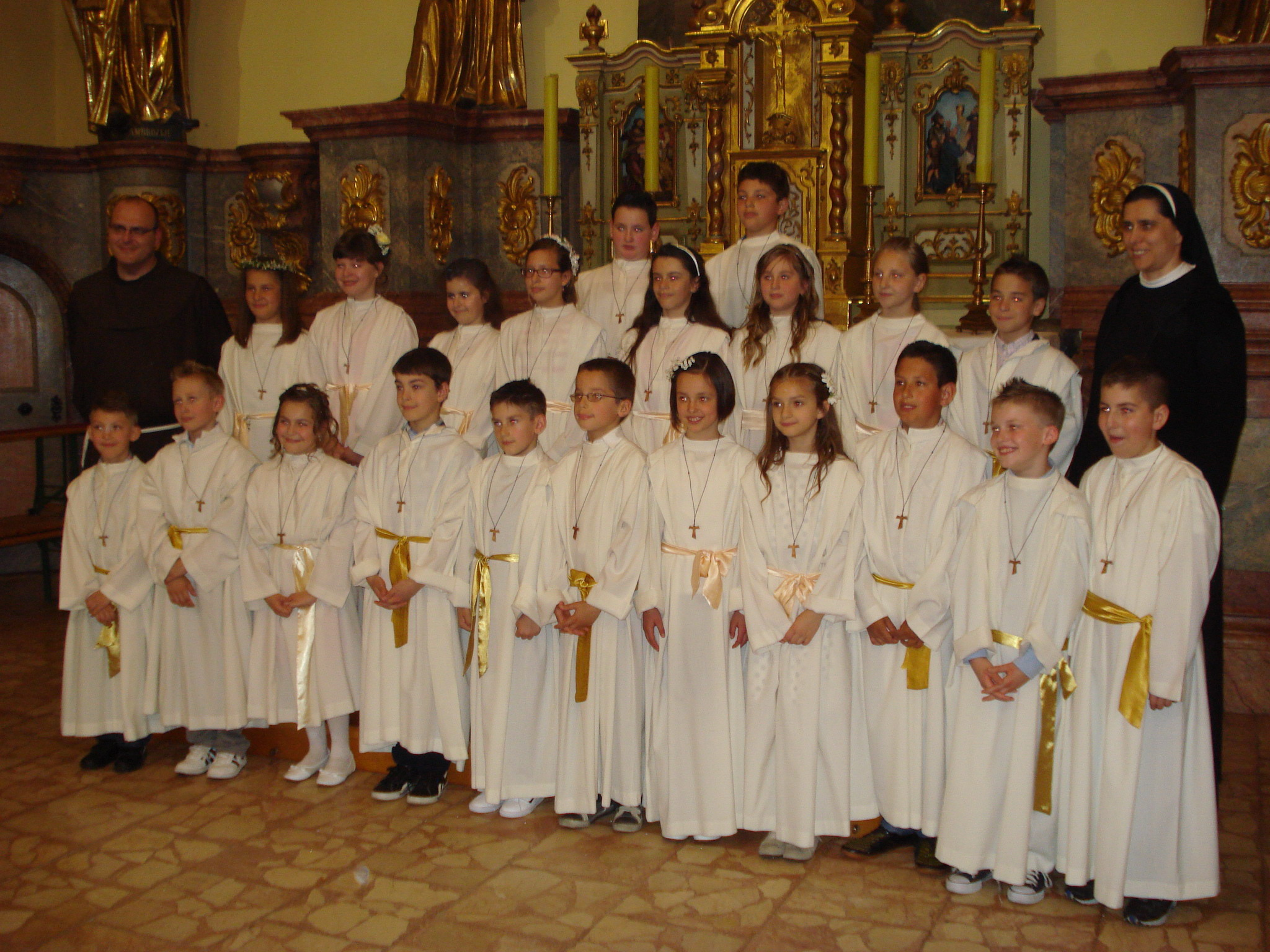 2014 First Communion in Čakovec, Croatia